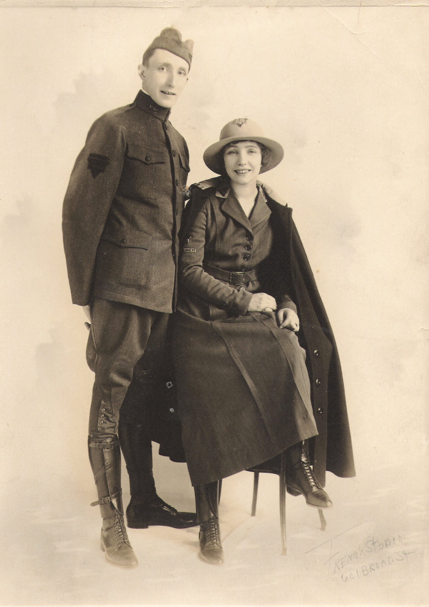 Arthur Hornbui Bell (1891-1973) and Leah Hamlin (1895-1951) circa 1918